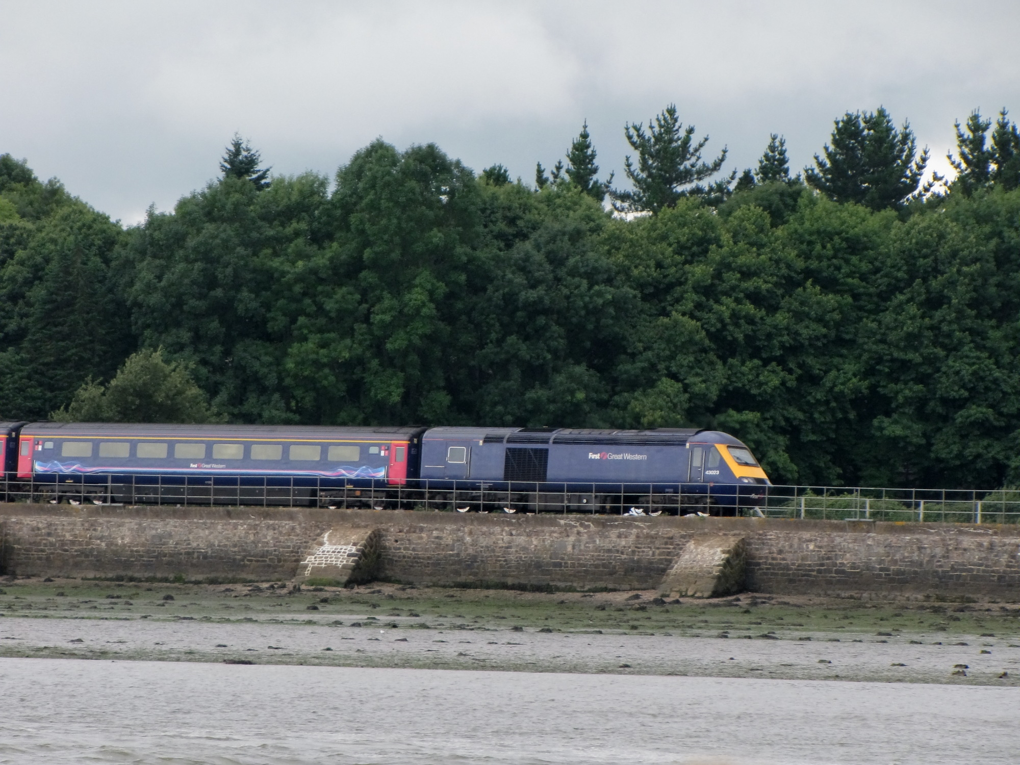 43023 heads a Plymouth - Paddington service past Starcross. Shot taken from the Starcrosss Ferry